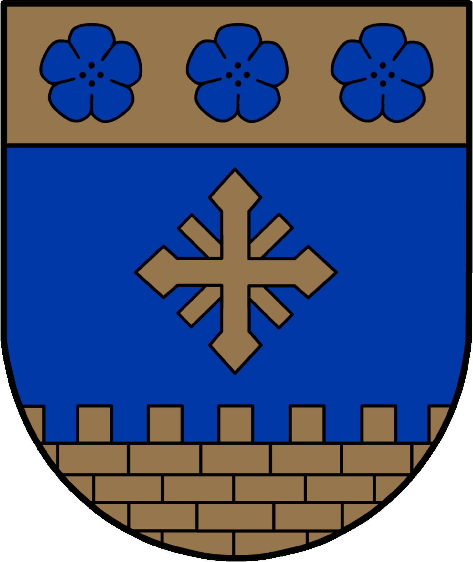 Coat of arms of Viļaka Municipality, Latvia